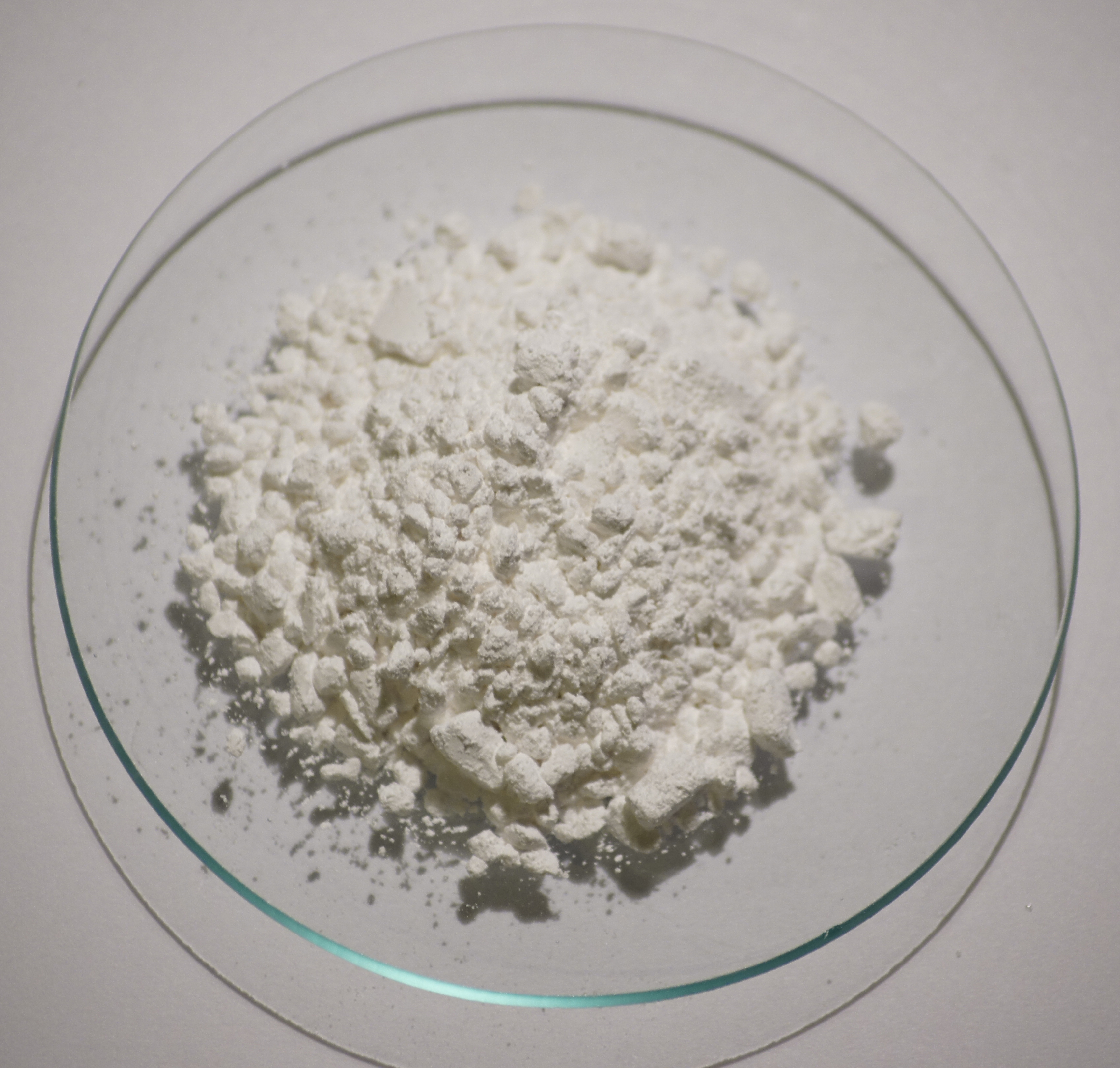 Anhydrous calcium chloride